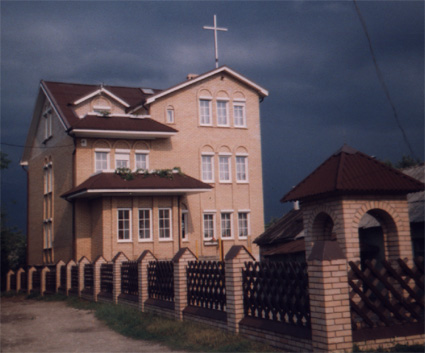 Catholic church in Lugansk (Ukraine)